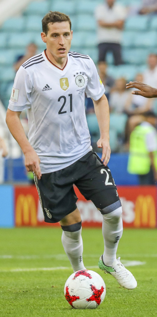 Germany VS. Cameroon 3 - 1, 25 June 2017